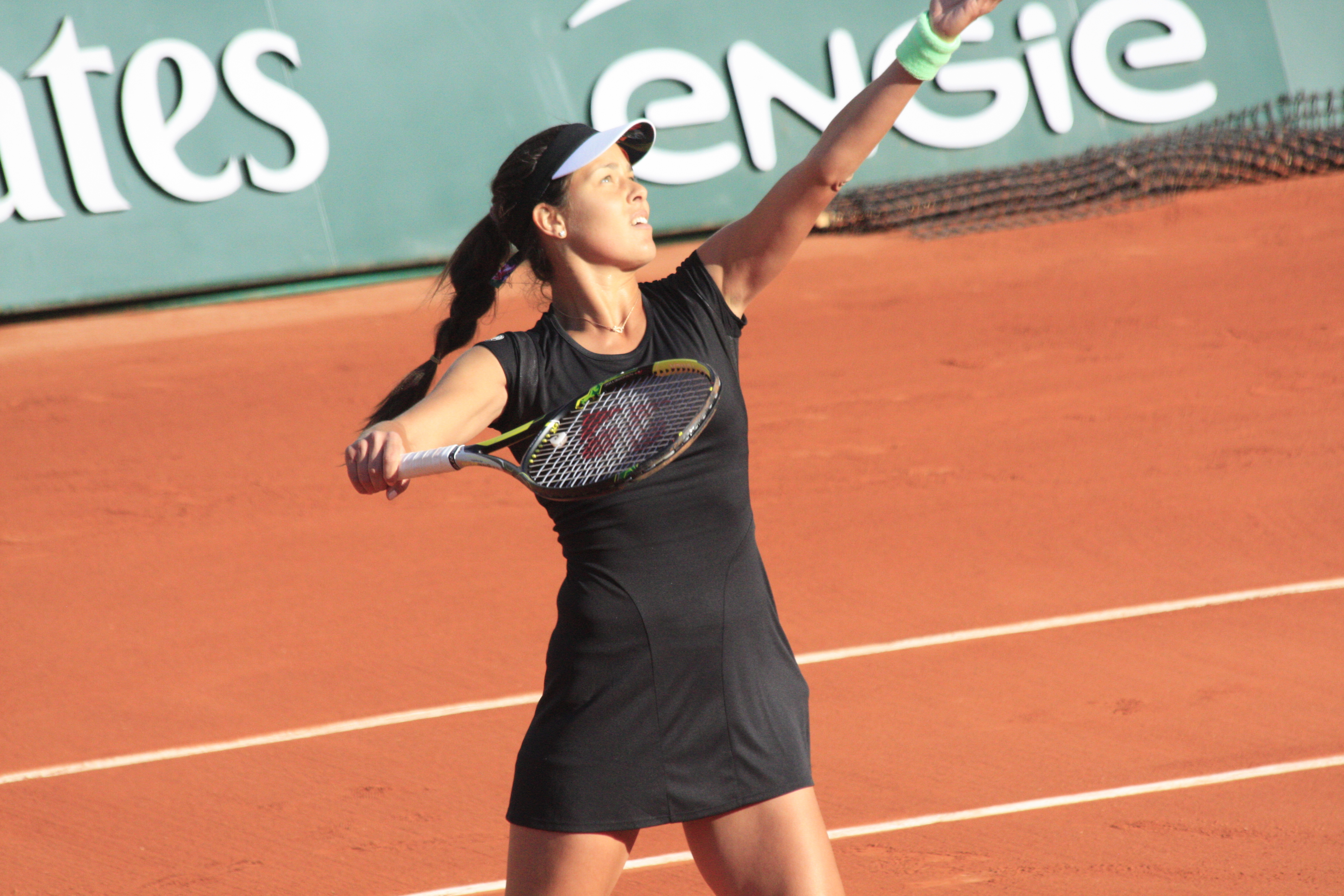 Ana Ivanovic in the first round of the 2015 French Open.